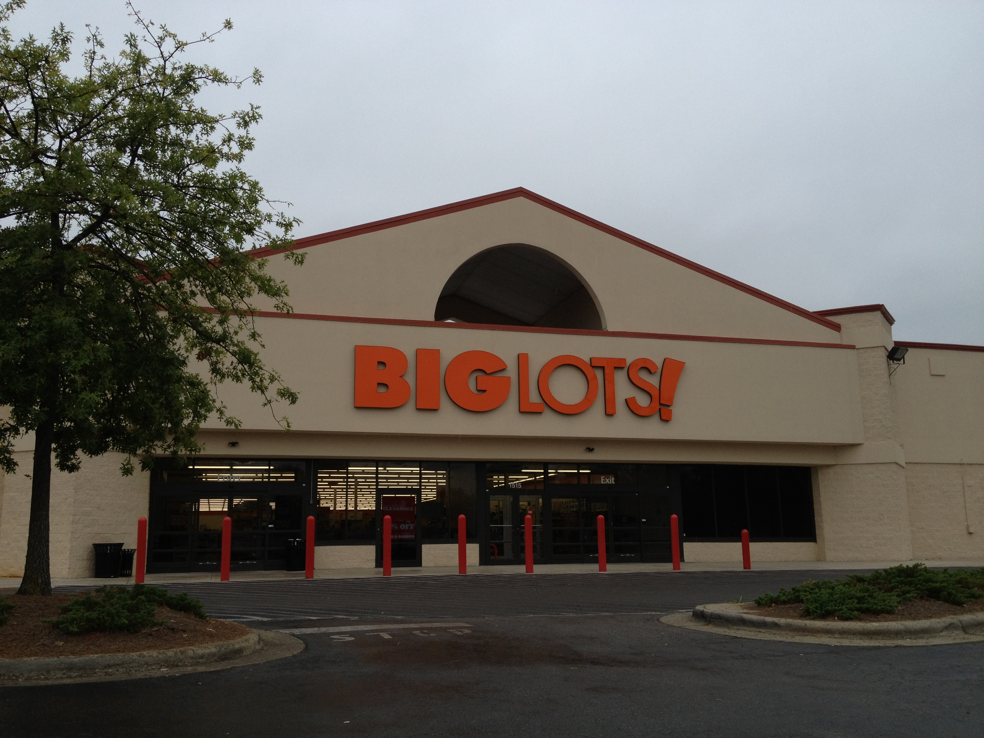 Wal-Mart (Now Big Lots) Garner Station Raleigh, NC 2